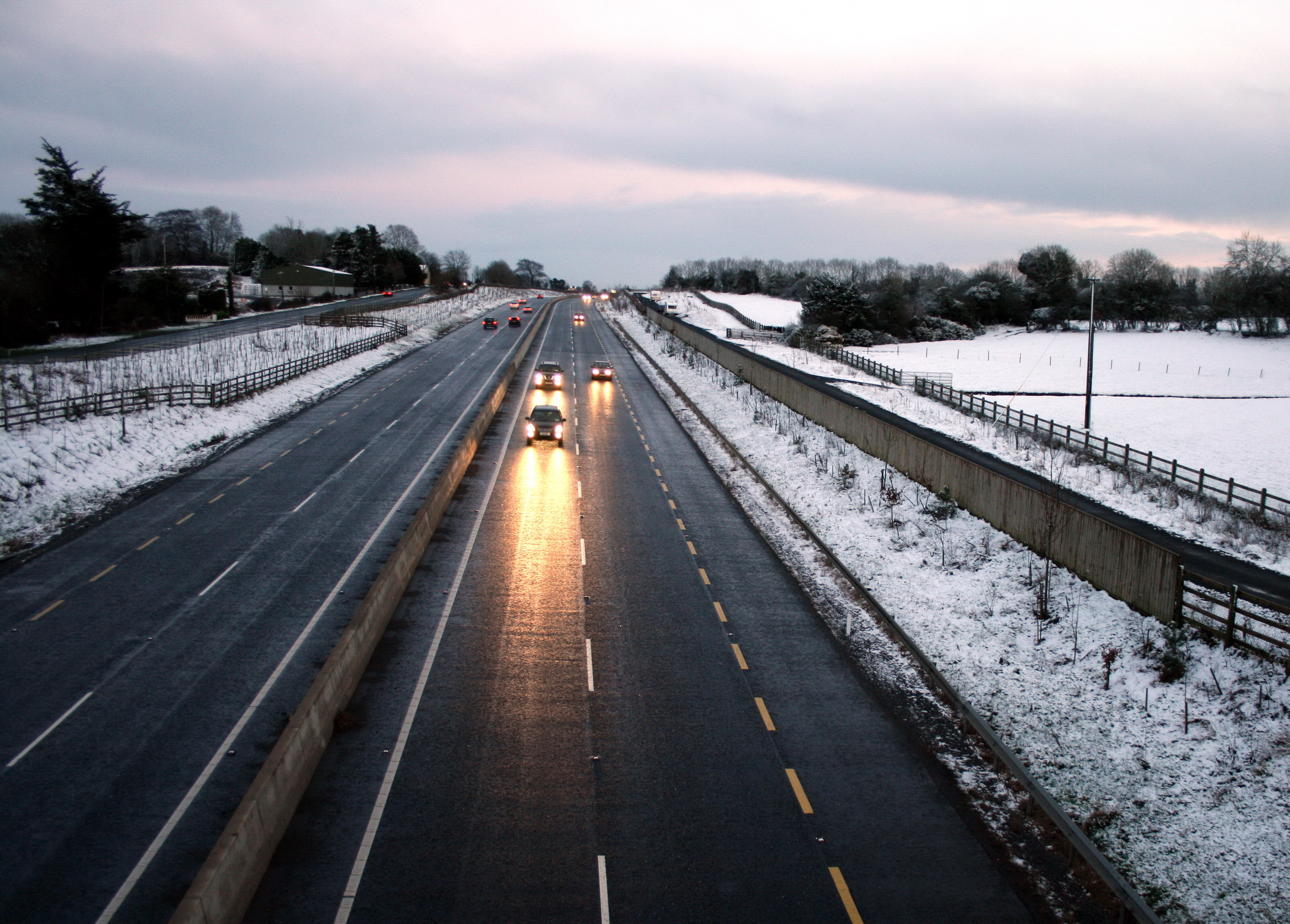 The N4 between Kinnegad and Mullingar (Ireland) looking east with the old N4 road in left of picture.